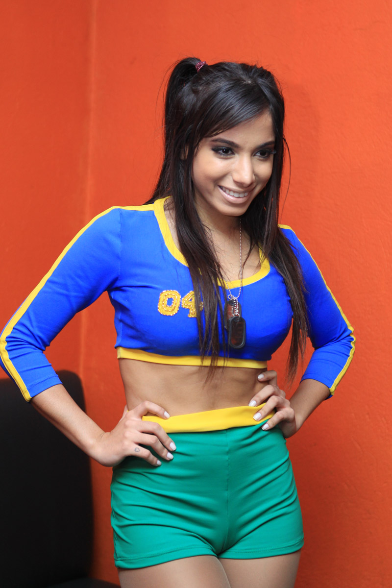 MC anitta at Ginga.